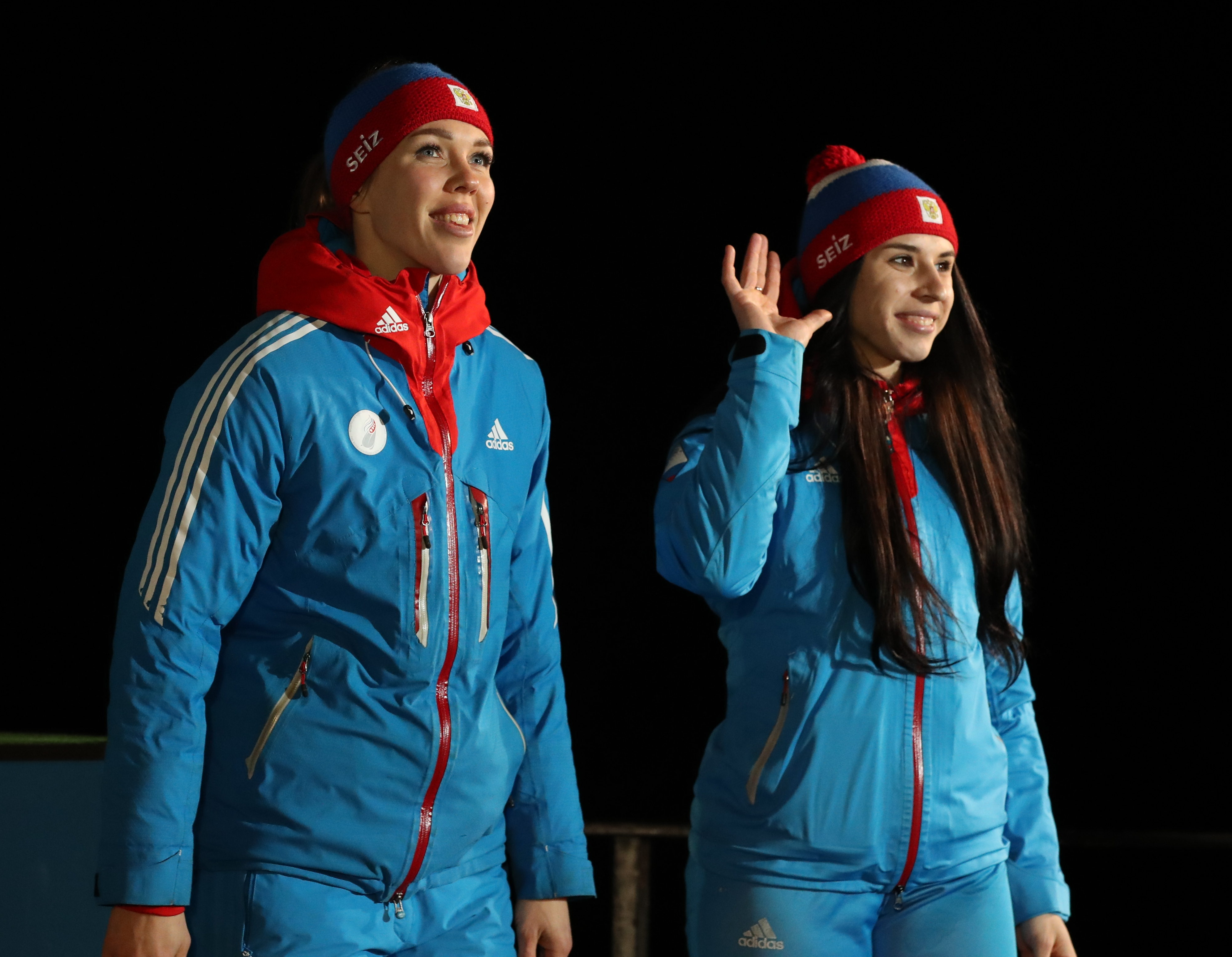 Medal Ceremony at the 2-woman bobsleigh at the Bobsleigh and Skeleton World Championships 2020 in Altenberg